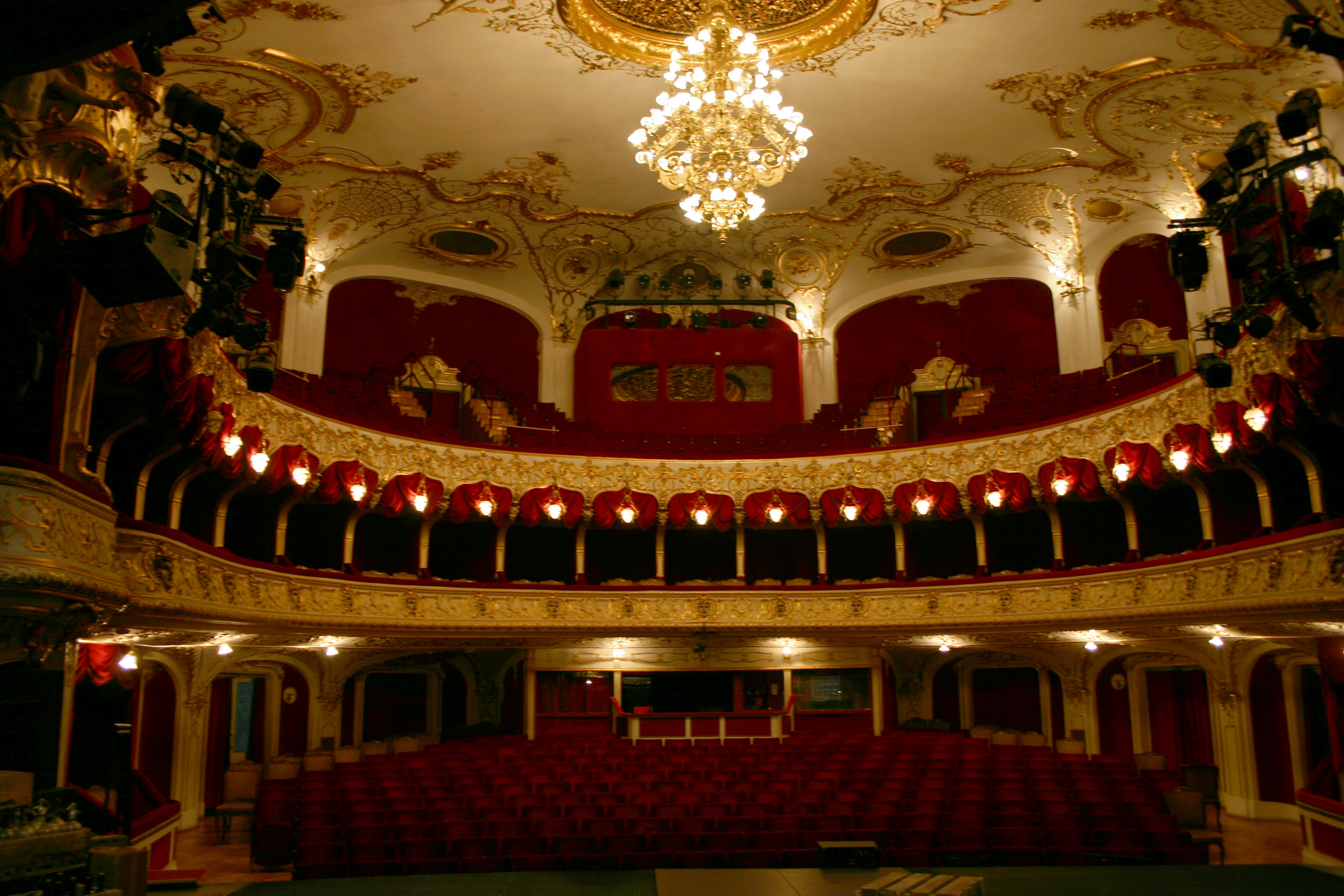 Katona József Theater (Kecskemét, Hungary)